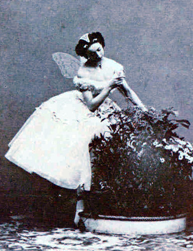 Photo of French ballerina Emma Livry, circa 1860-1863. Author Unknown.